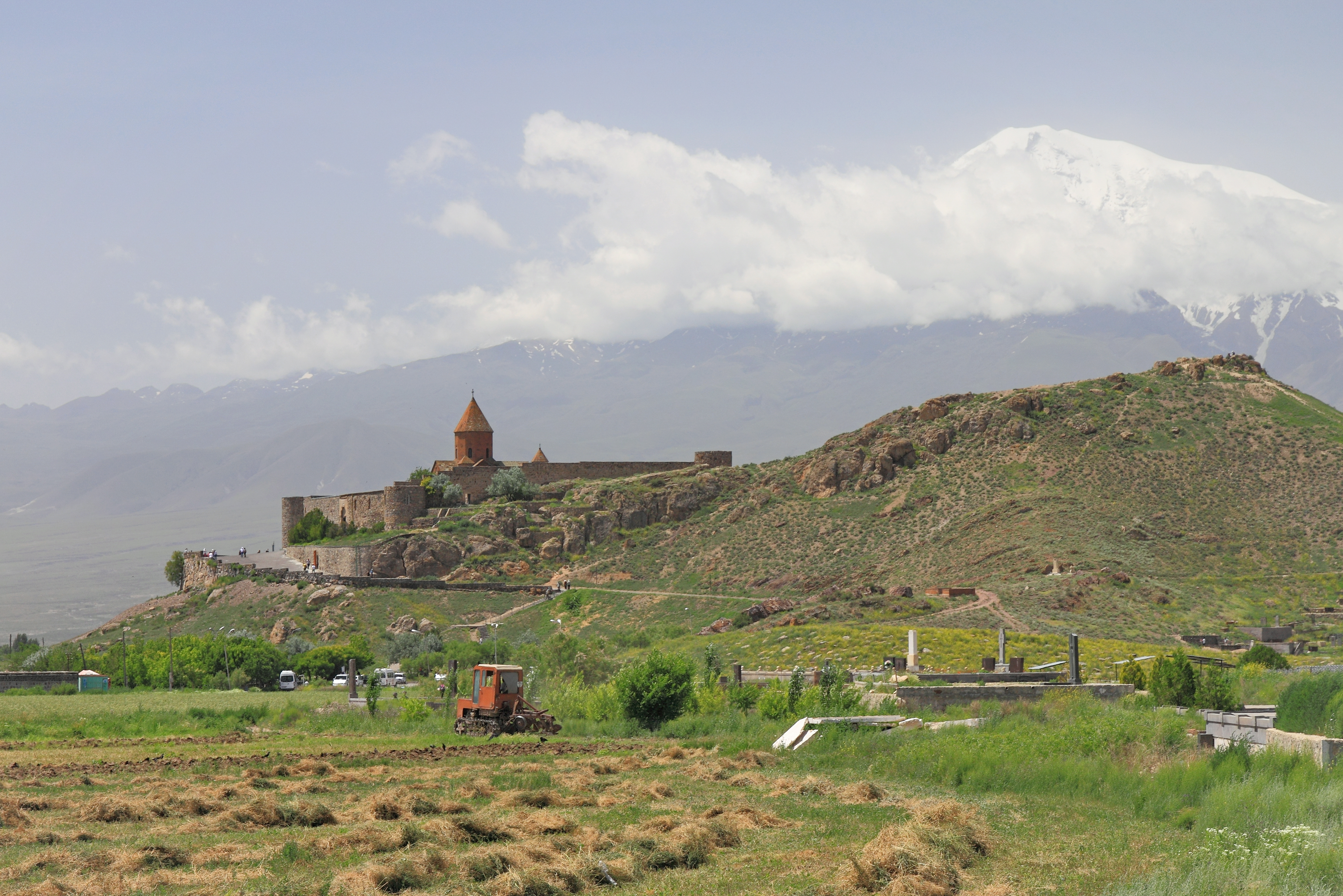 View of the Great Ararat and Khor Virap monastery. Ararat Province, Armenia.